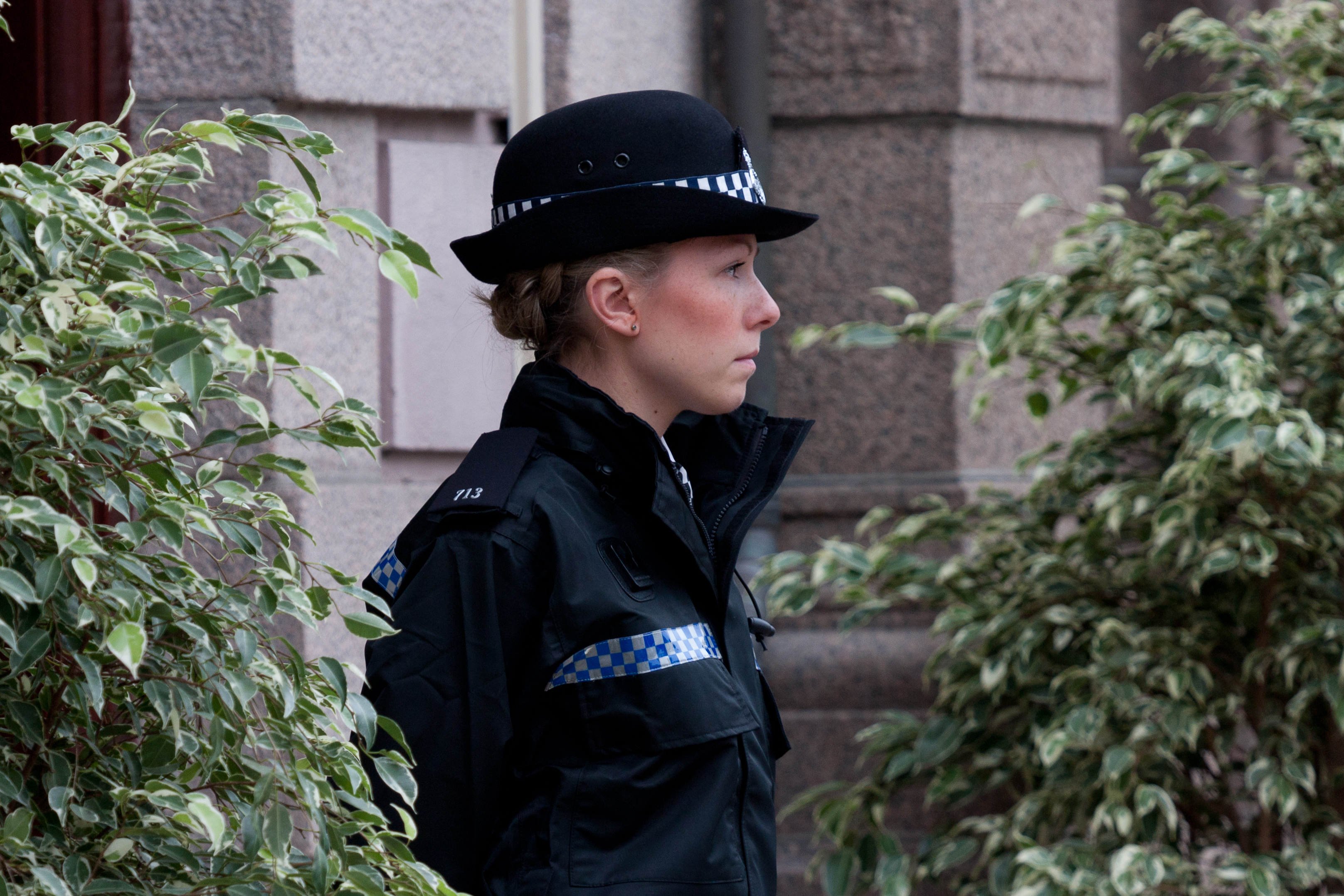 Police Officer at the Royal Visit, in Jersey.